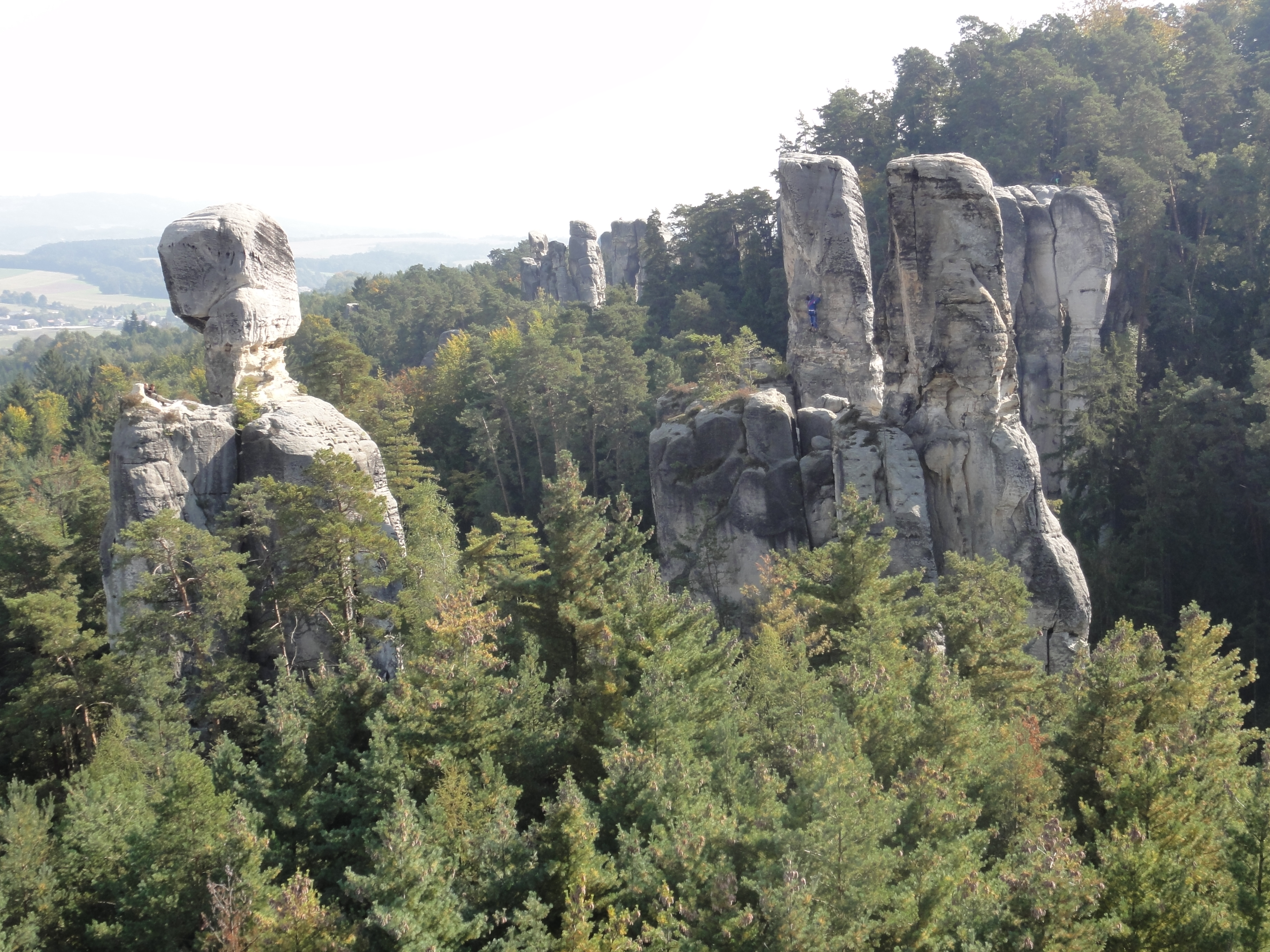 výhled (Lebka (Skull) on left, blue climber on Unorova (February), right in front is Durango, right behind is Ocun, far in the middle are List, Vetrnik and Draci zub (Dragon tooth))